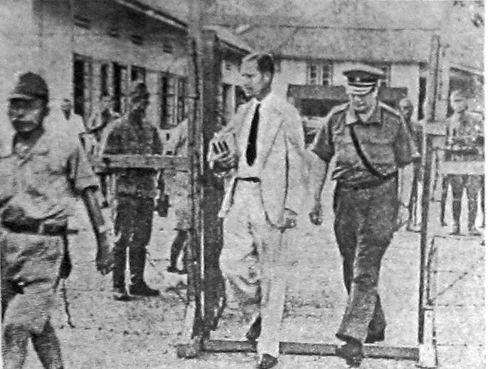 Governor-General of the Dutch East Indies Tjarda van Starkenborgh Stachouwer and his military commander brought into a prisoner of war camp.